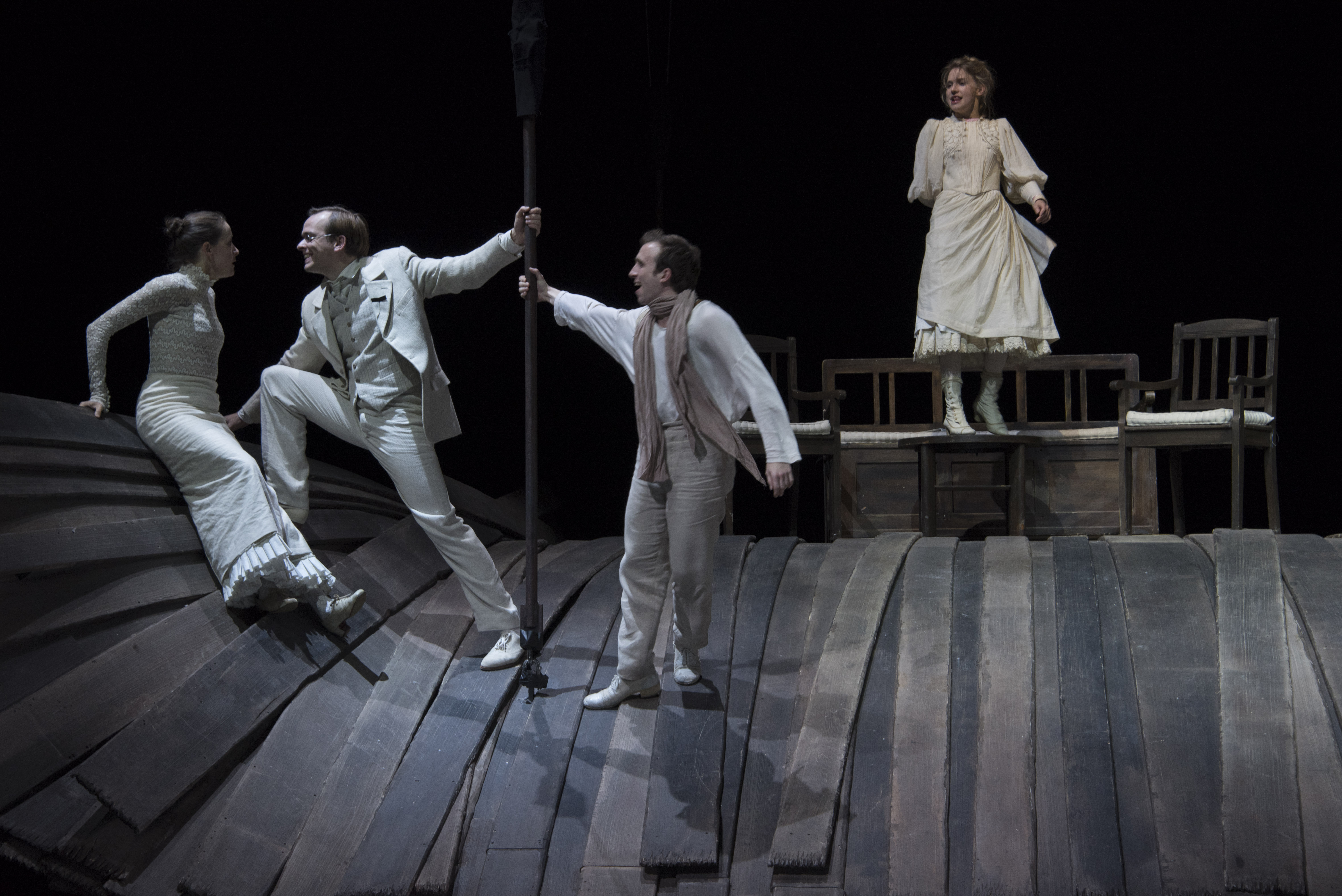 Wassa Schelesnowa, Burgtheater Vienna, October 2015